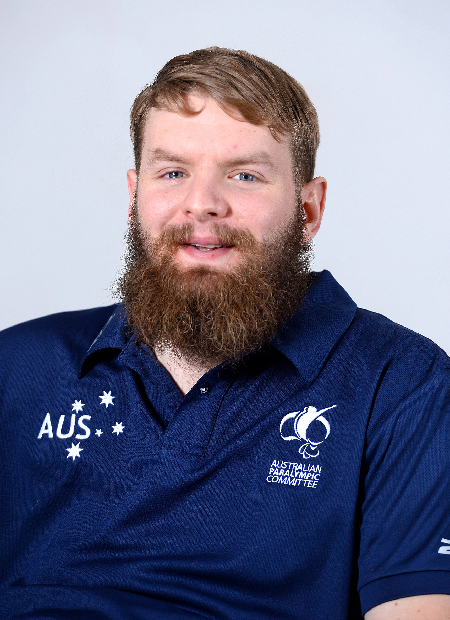 Portrait photograph of Benjamin Fawcett taken at team processing session for shadow members of 2016 Australian Paralympic team